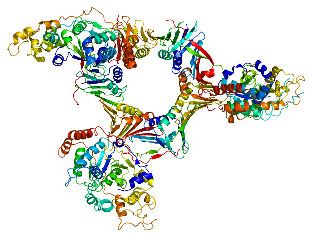 Structure of the FEN1 protein. Based on PyMOL rendering of PDB 1ul1.